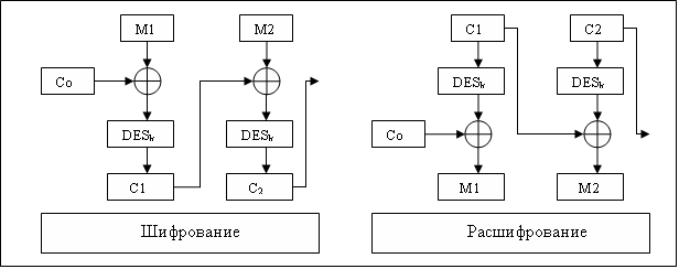 Cipher Block Chaining